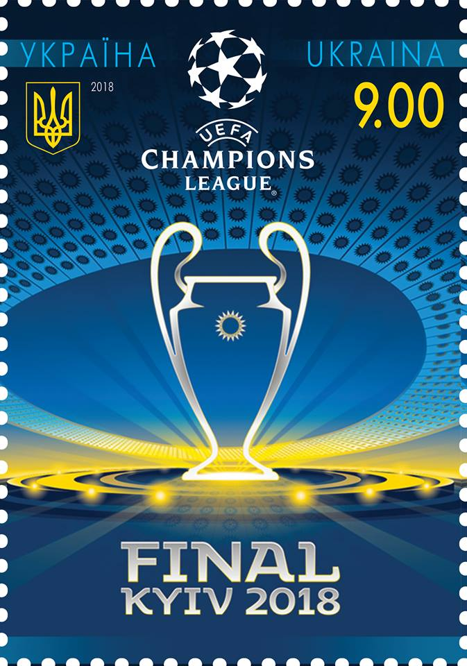 2018 Ukraine Stamp